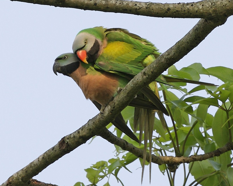 Red-breasted Parakeet (Psittacula alexandri) in Kazaringa, Assam, India on 15 April 2008. A pair mating. The male has a red beak and the female has a black beak. Distribution